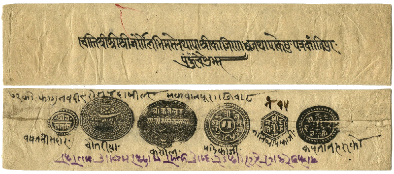 Letter sent by Seal of Various Bharadars; Bakhat Singh Sardar, Chautariya Prana Shah, Col. Ranabir Singh Thapa, Kaji Dalbhanjan Pandey, Kaji Narsingh Thapa & Various Captains, in which contained corrected draft of Treaty of Sugauli to PM Bhimsen Thapa and his junior Kaji Ranadhoj Thapa